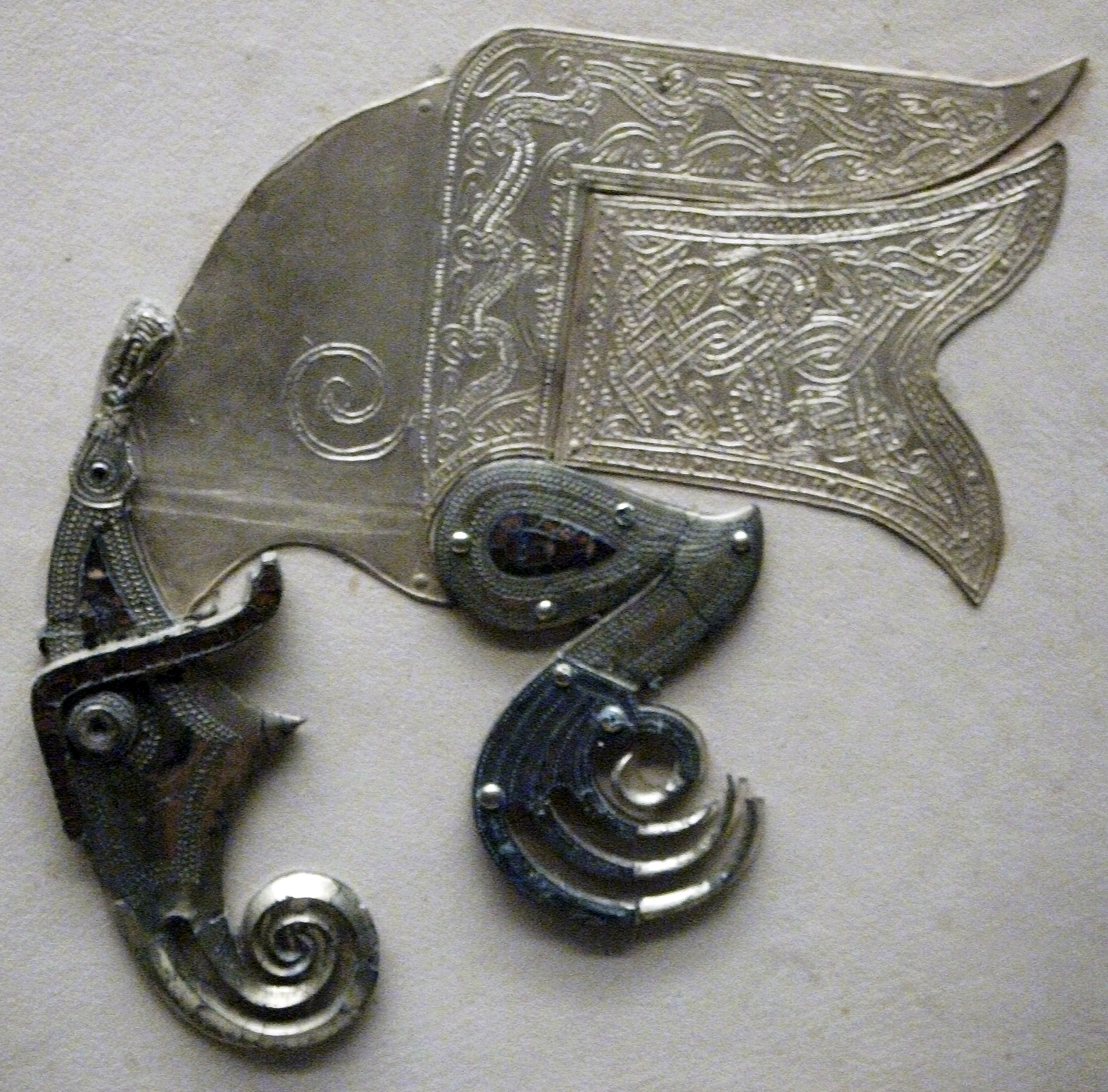 Shield ornament from the Sutton Hoo burial, British Museum. Some or all may be replica, or not.